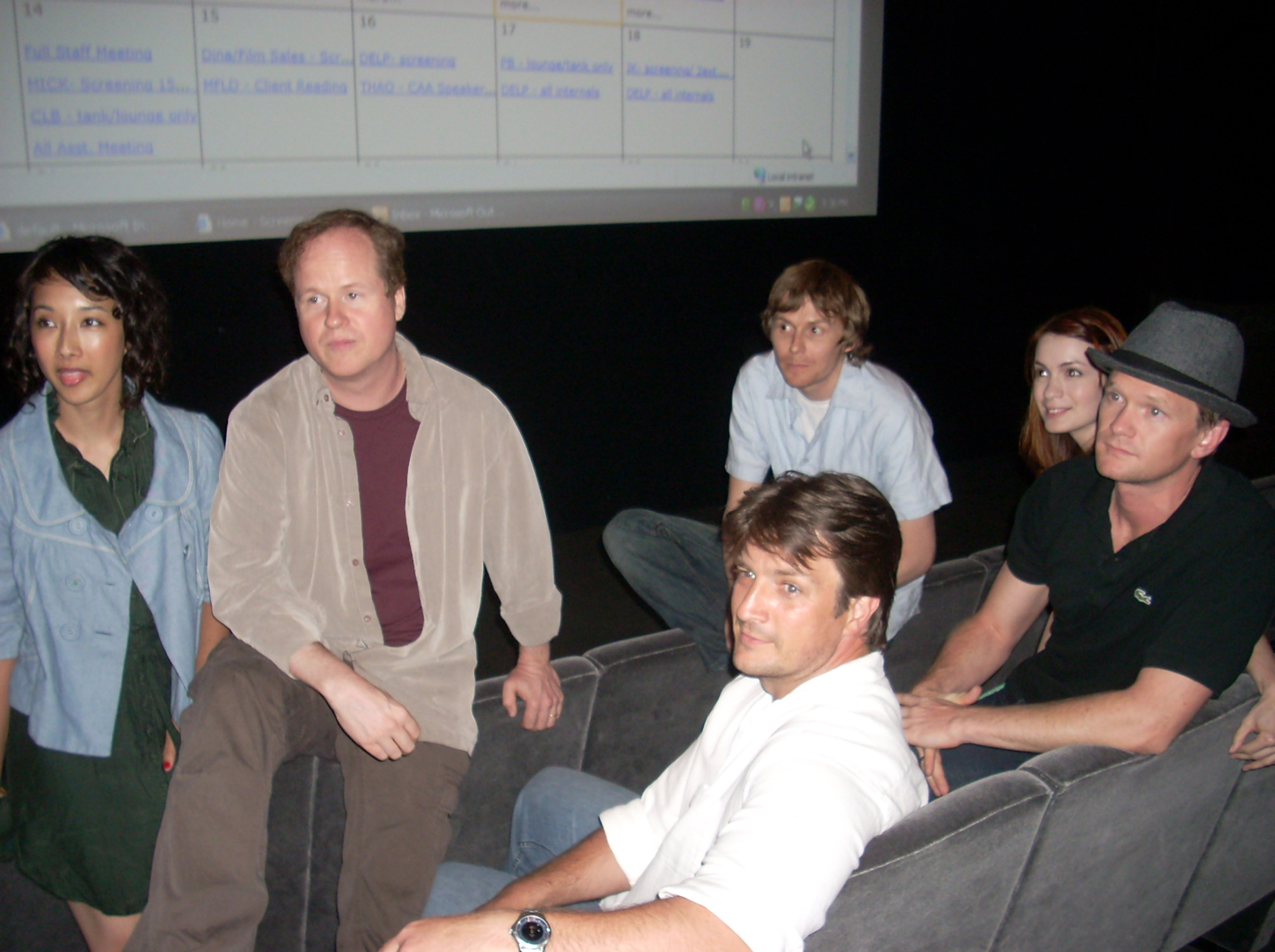 Maurissa Tancharonen, Joss Whedon, Nathan Fillion, Jed Whedon, Neil Patrick Harris, Felicia Day, CAA Theater screening of "Dr. Horrible's Sing-Along Blog," July 10, 2008